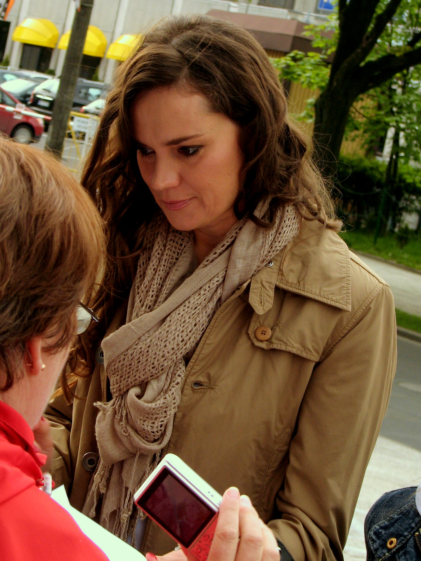 Aleksandra Nieśpielak with admirers during XXXV Polish Film Festival in Gdynia 2010.